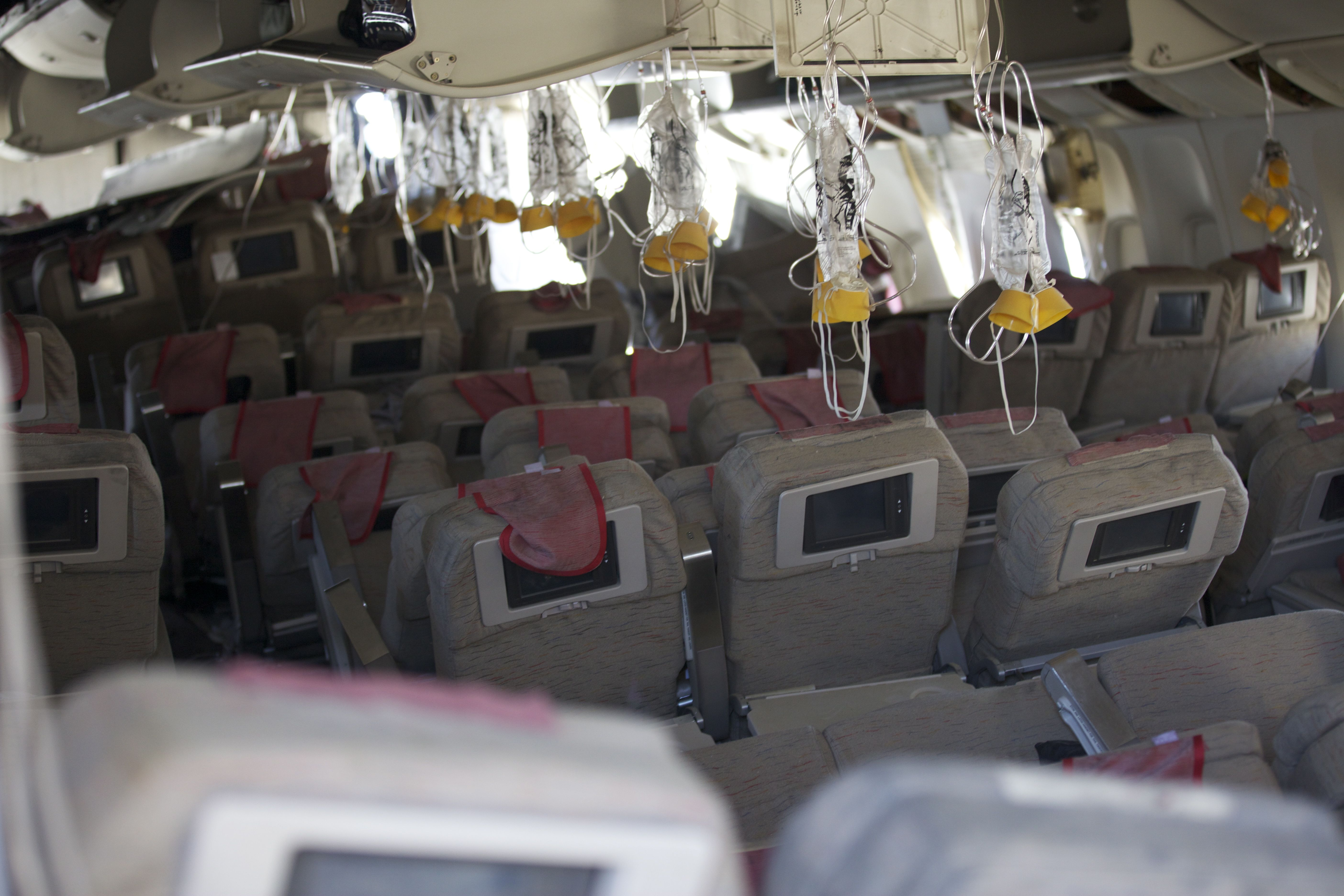 Interior of Asiana Airlines Flight 214 in San Francisco.